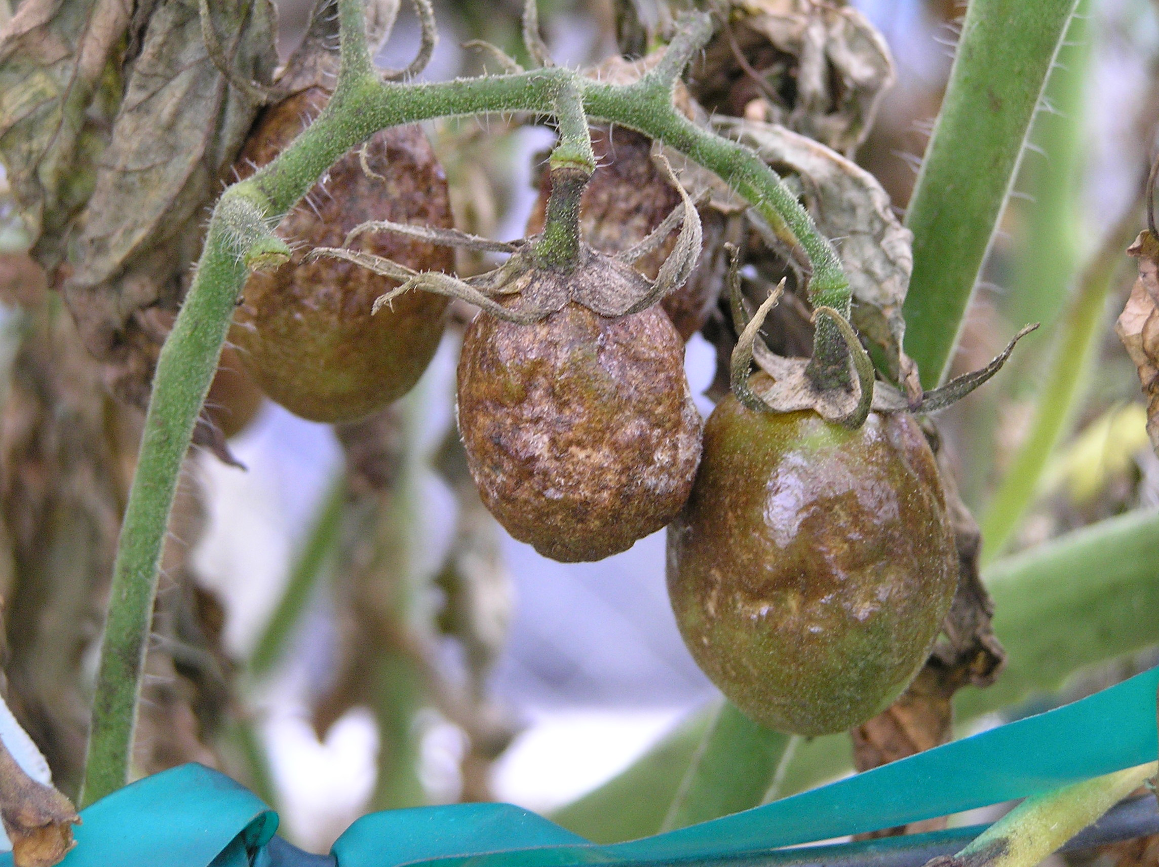 Late blight of tomato caused by Phytophthora infestans